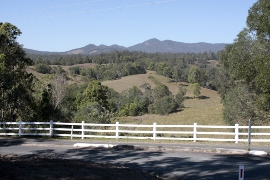 View of Kobble Creek area showing Mt Samson